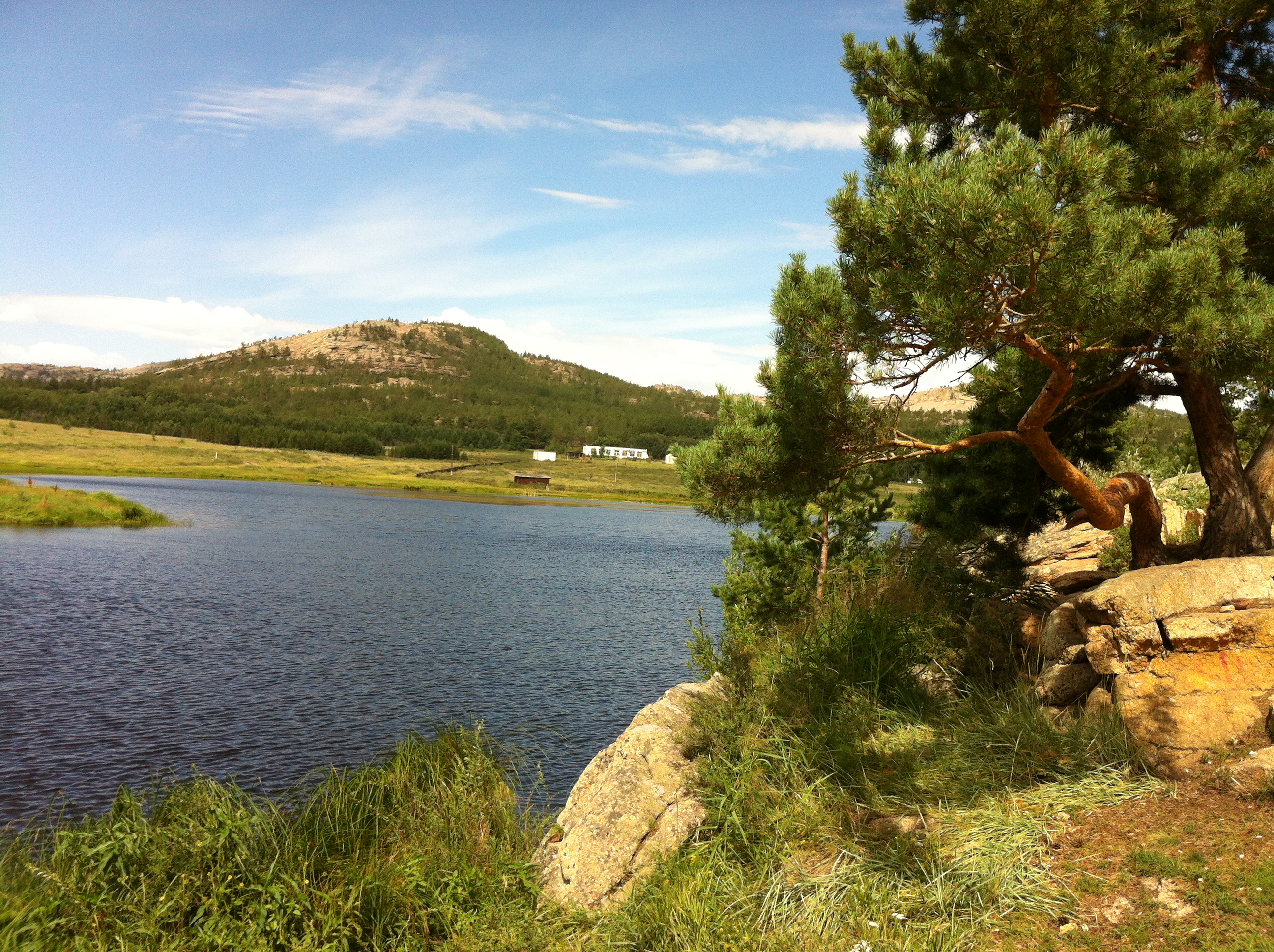 Shoqpartas, Qarqaraly, Kazakhstan